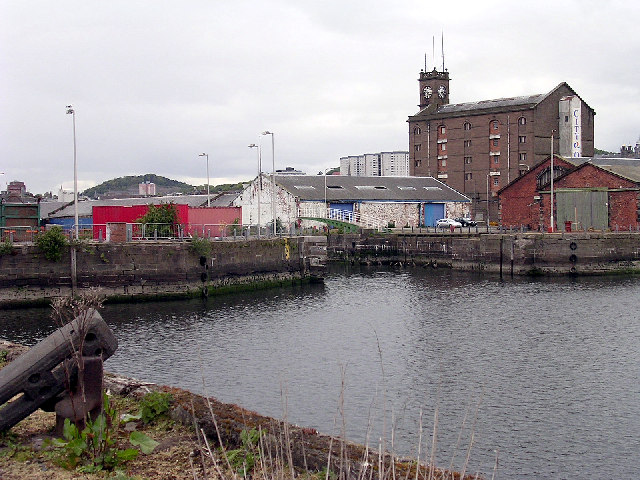 Camperdown Dock, Dundee harbour. Camperdown dock was built in 1865. The enclosed docks at Dundee harbour are little used these days.